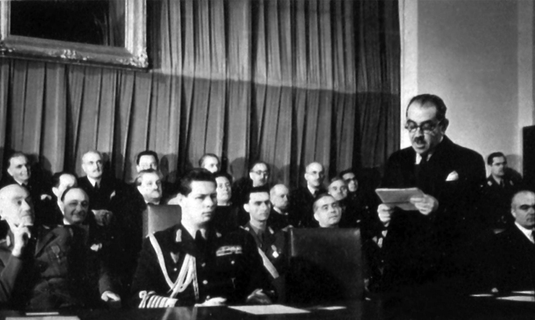 Romanian King Michael I (front row, center) and Premier Nicolae Rădescu (front row, left) listen to a speech delivered by Bucharest University Rector Simion Stoilow (Stoilov), at the opening celebration for the 1945-1946 academic year. Also attending are Grigore T. Popa, dean of the Medical School (front row, farthest right), and Constantin Titel Petrescu, leader of the Social Democratic Party (directly behind King Michael).